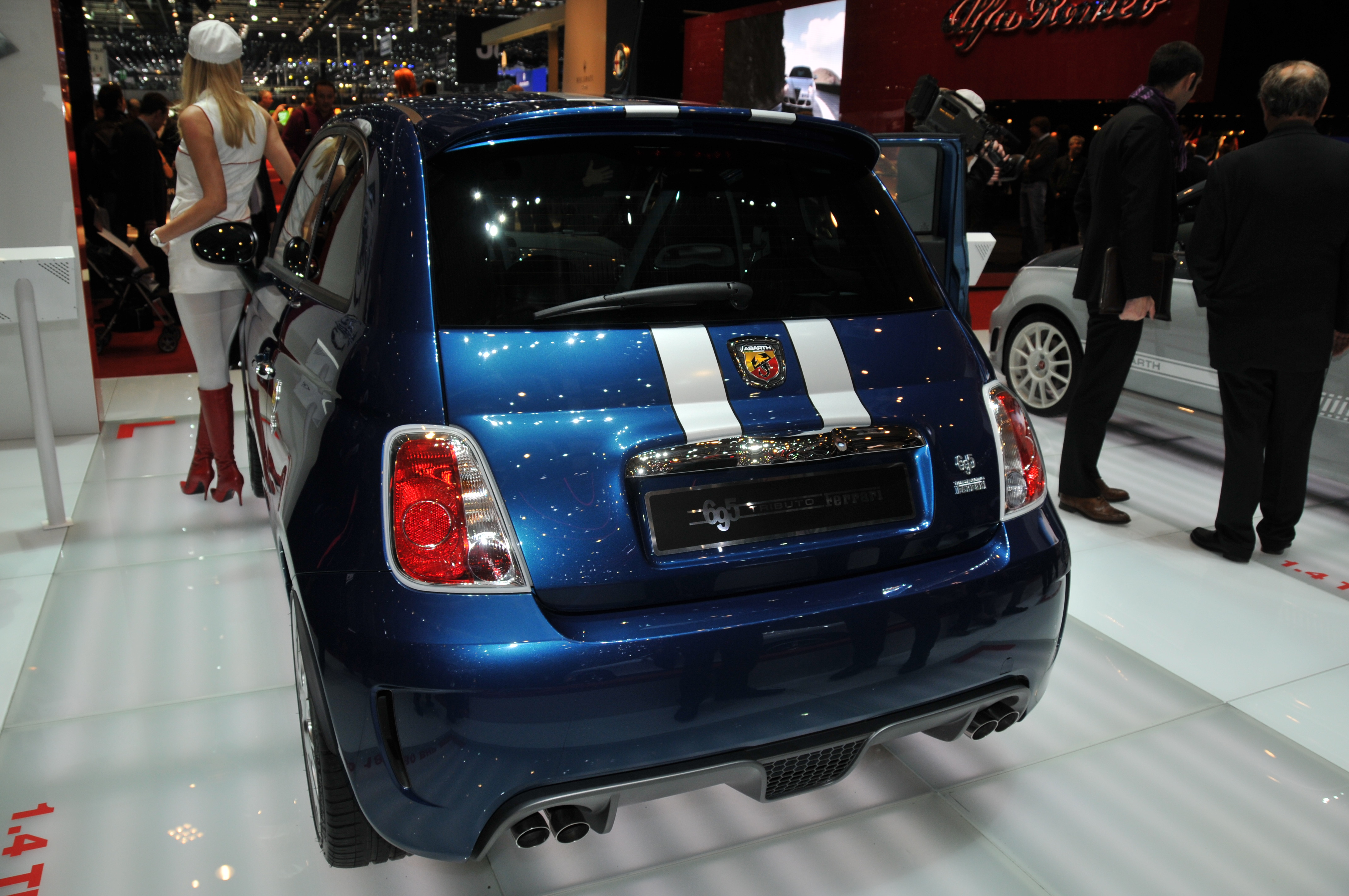 The Abarth 695 Tributo Ferrari at the 2011 Geneva Motor Show. For more info and images